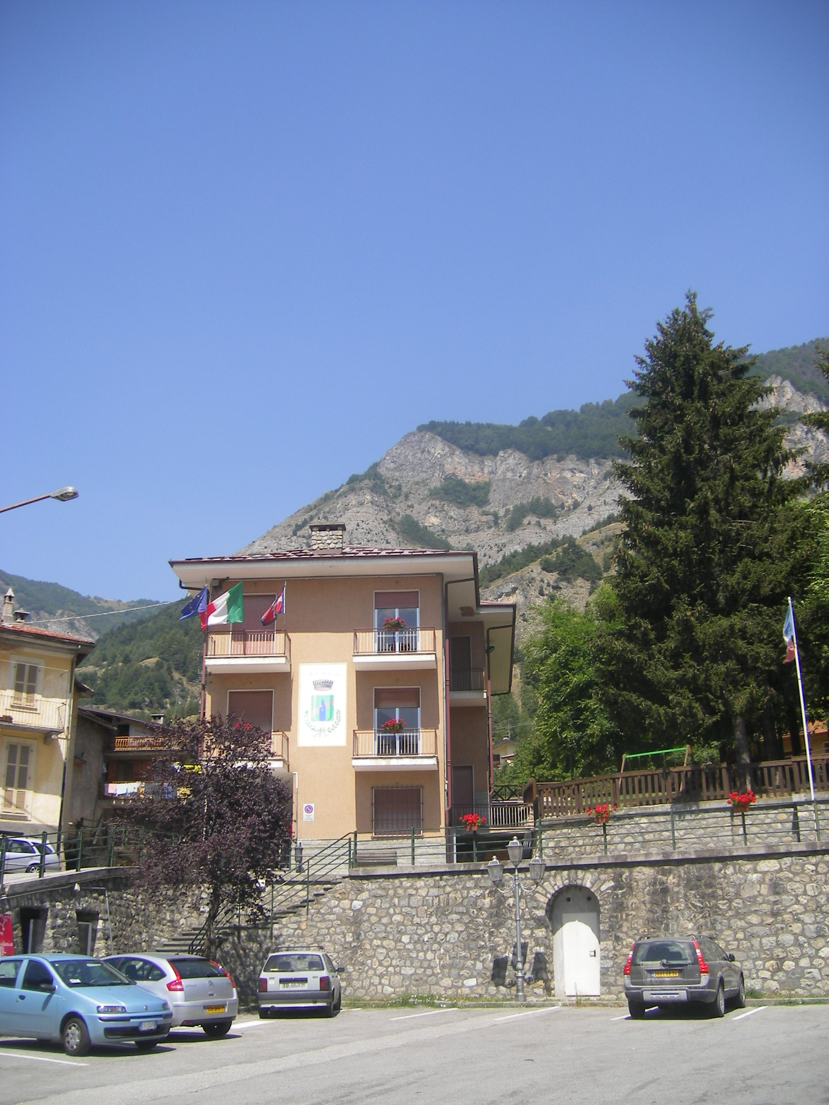 Aisone - Town hall